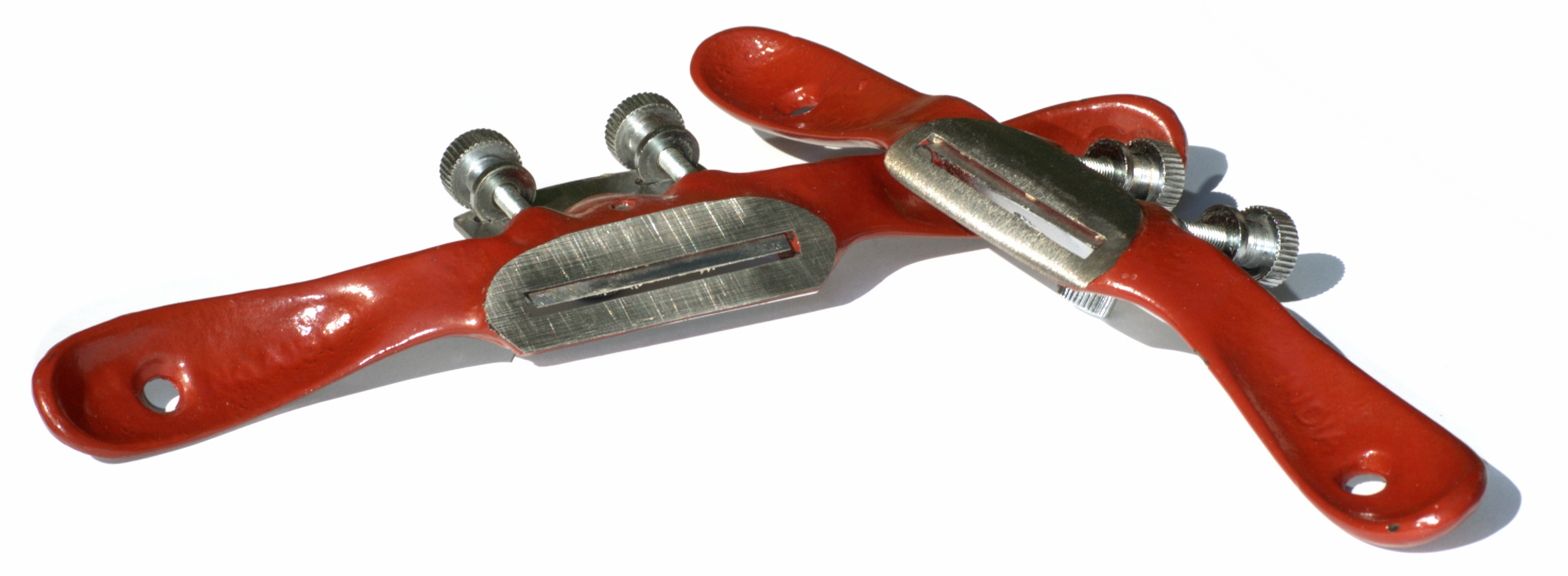 Spokeshaves, bottom view. The left spokeshave is flat, the right one rounded.